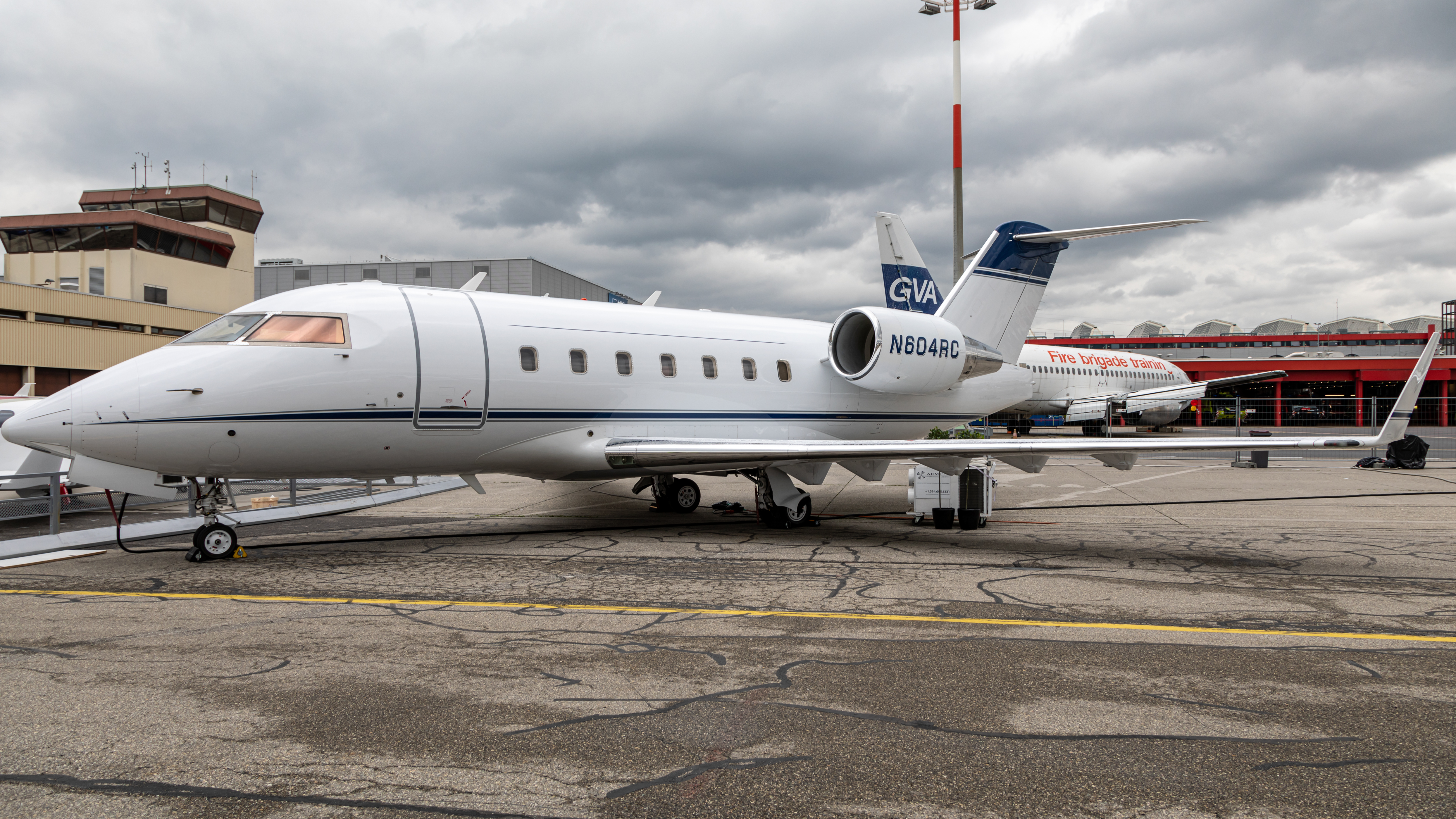 EBACE 2019, Palexpo, Switzerland